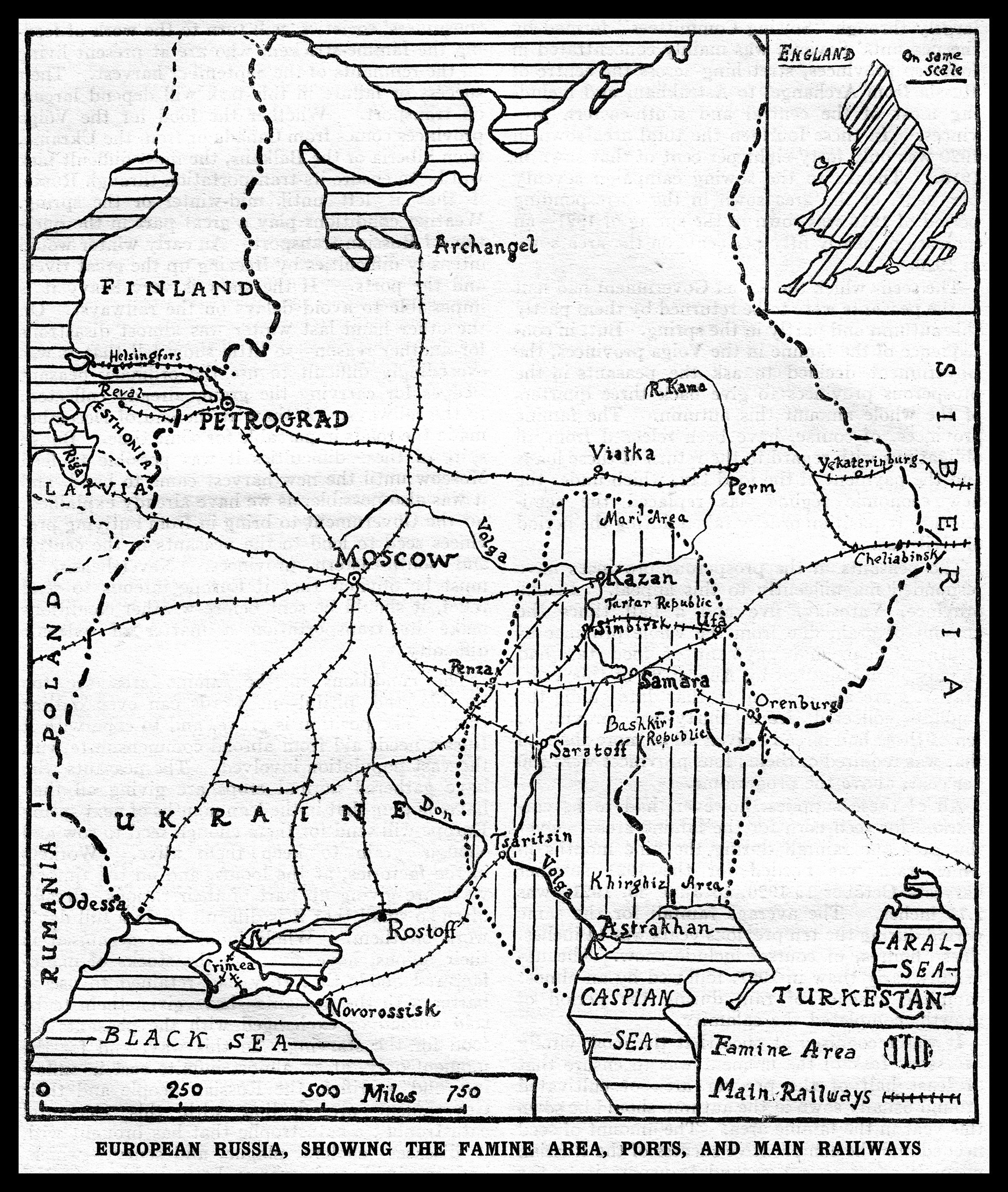 Map of the Famine area of Soviet Russia in 1921.